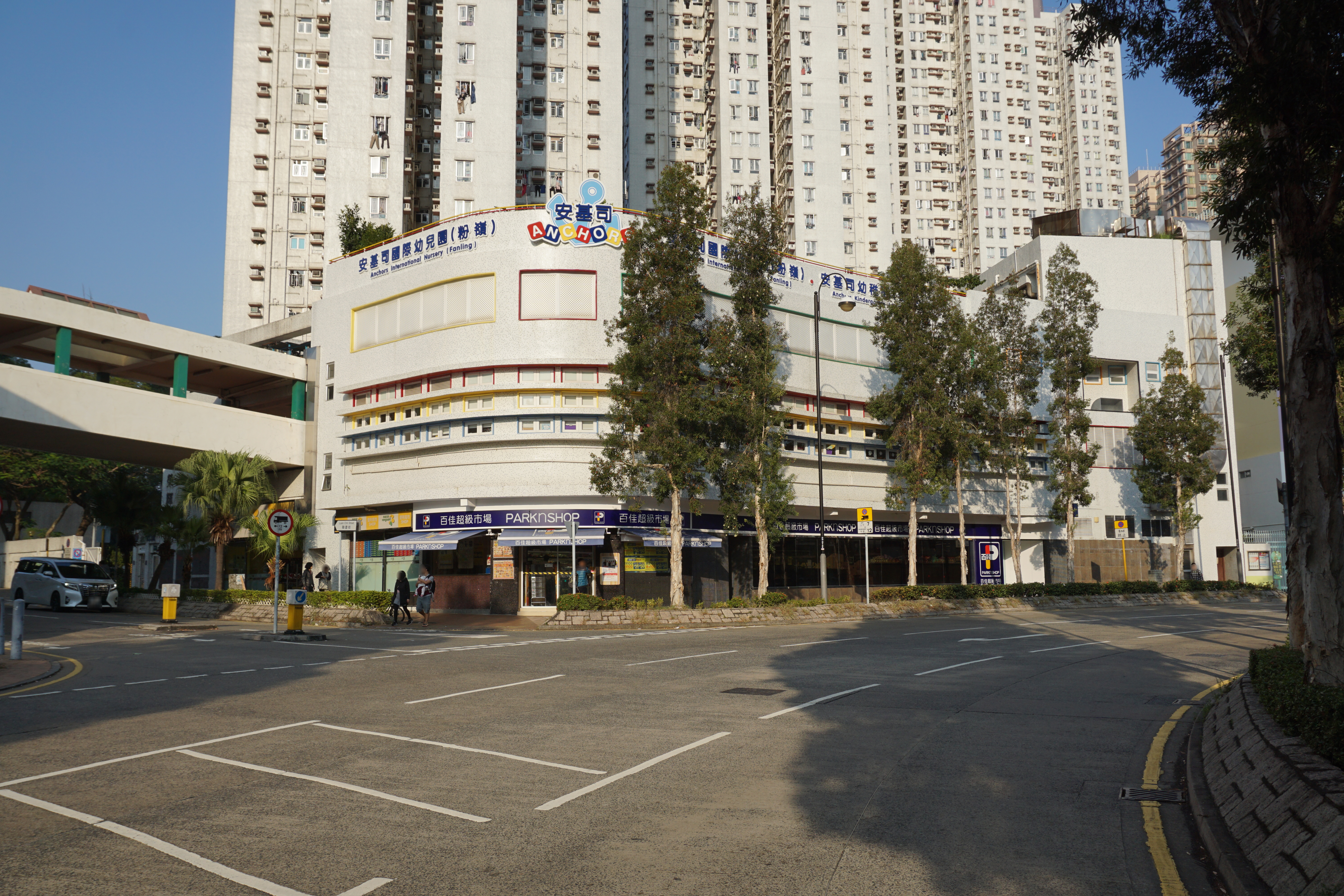 Wing Fai Centre in Luen Wo Hui, Hong Kong.